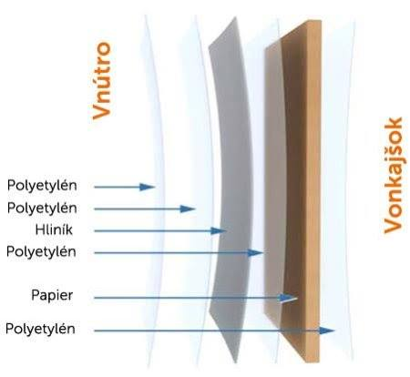 Composition of a TBA (Tetra Brick Aseptic) package in slovak.